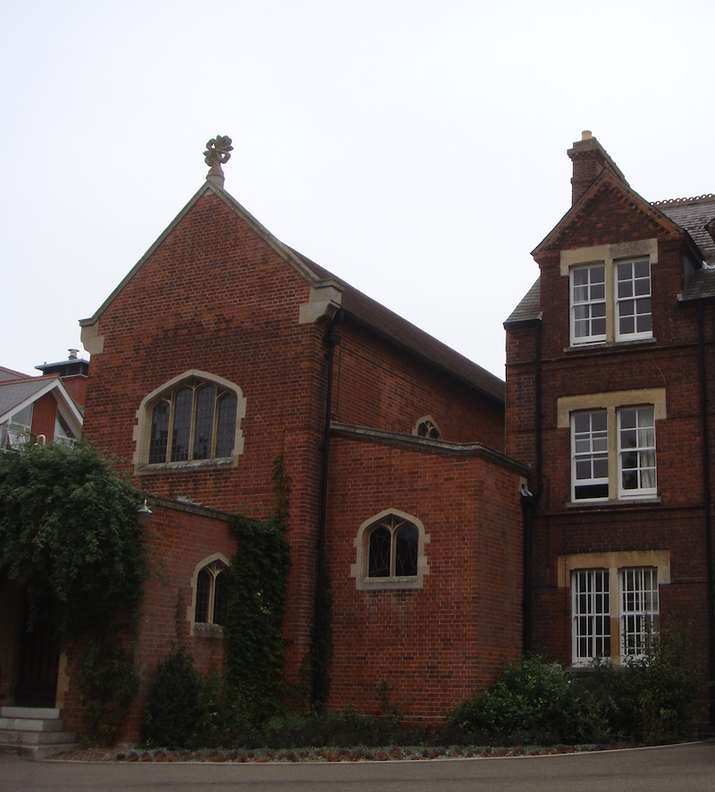 college4The Chapel at St Edmund's College, Cambridge, consecrated 1916.